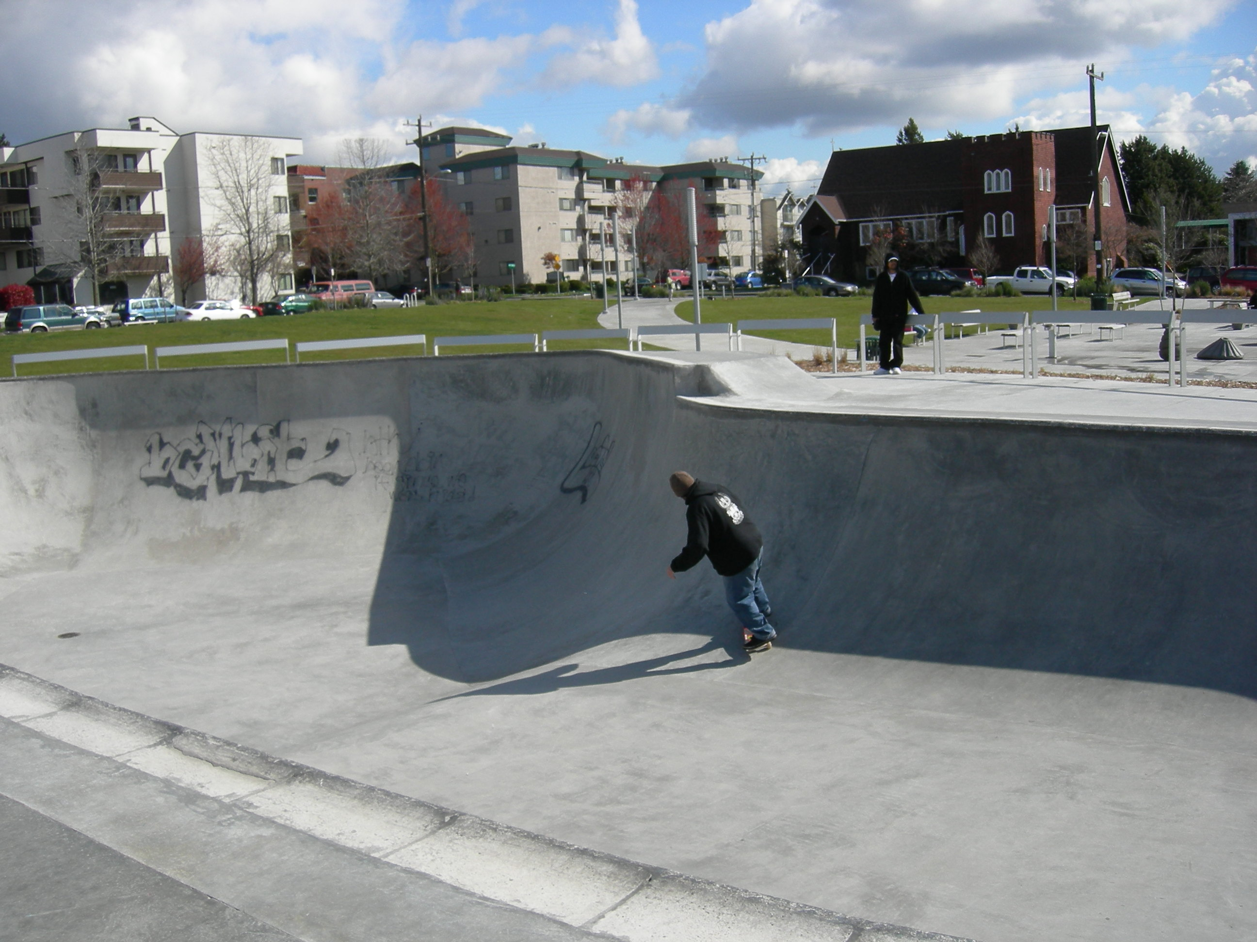 Skateboarder, Ballard Commons, Seattle, Washington.